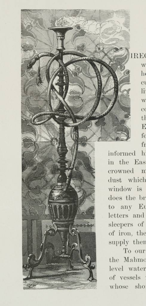 A nargileh (water-pipe) with a long hose.